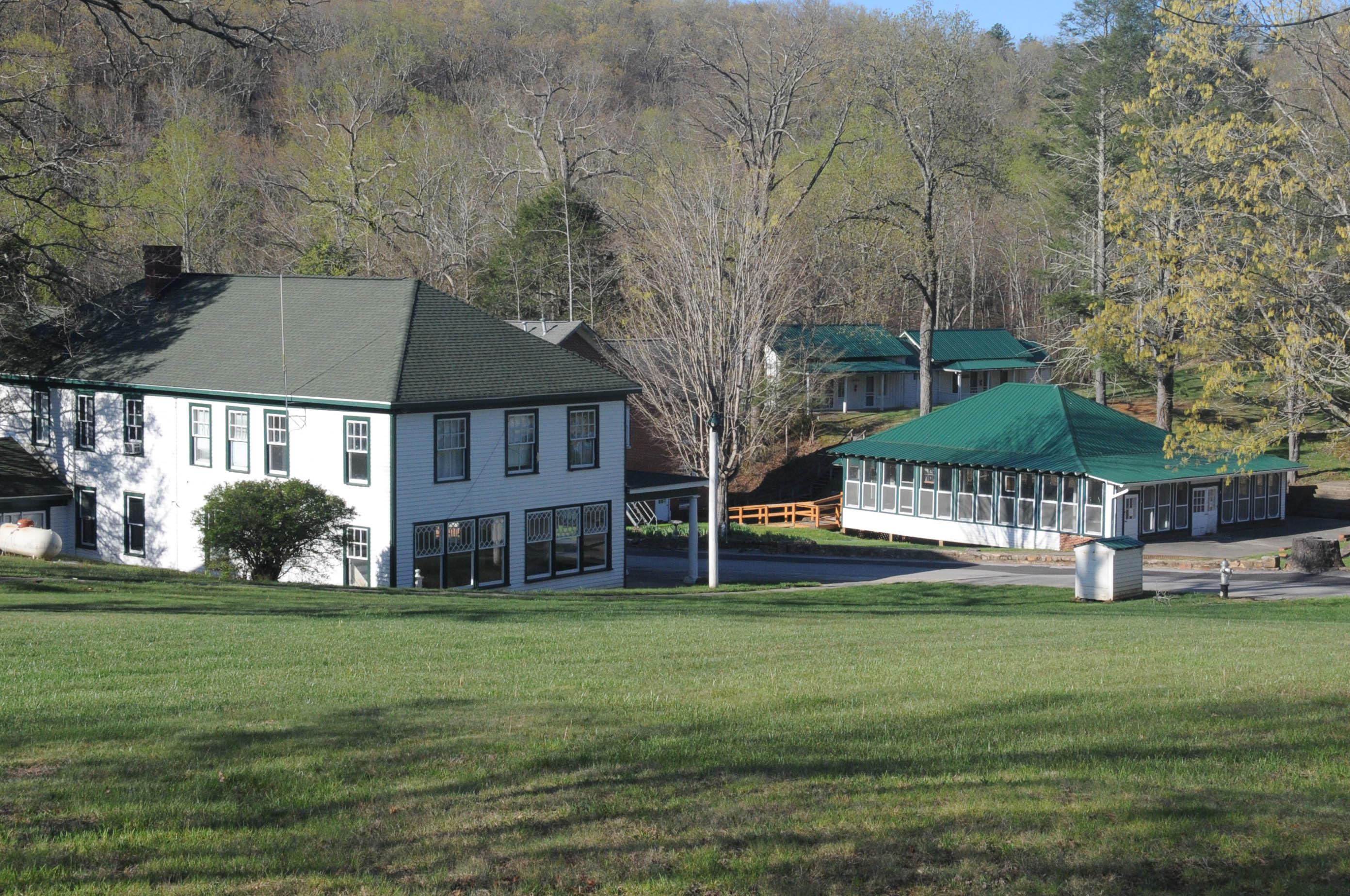 Complex consists of 23 buildings; starting circa 1909 around a spring with guest rooms, dining hall and dance pavilion. It declined in the 1950s and was purchased in 1960 as a retreat and conference center for the Disciples of Christ Christian Church. This picture is an overall view.